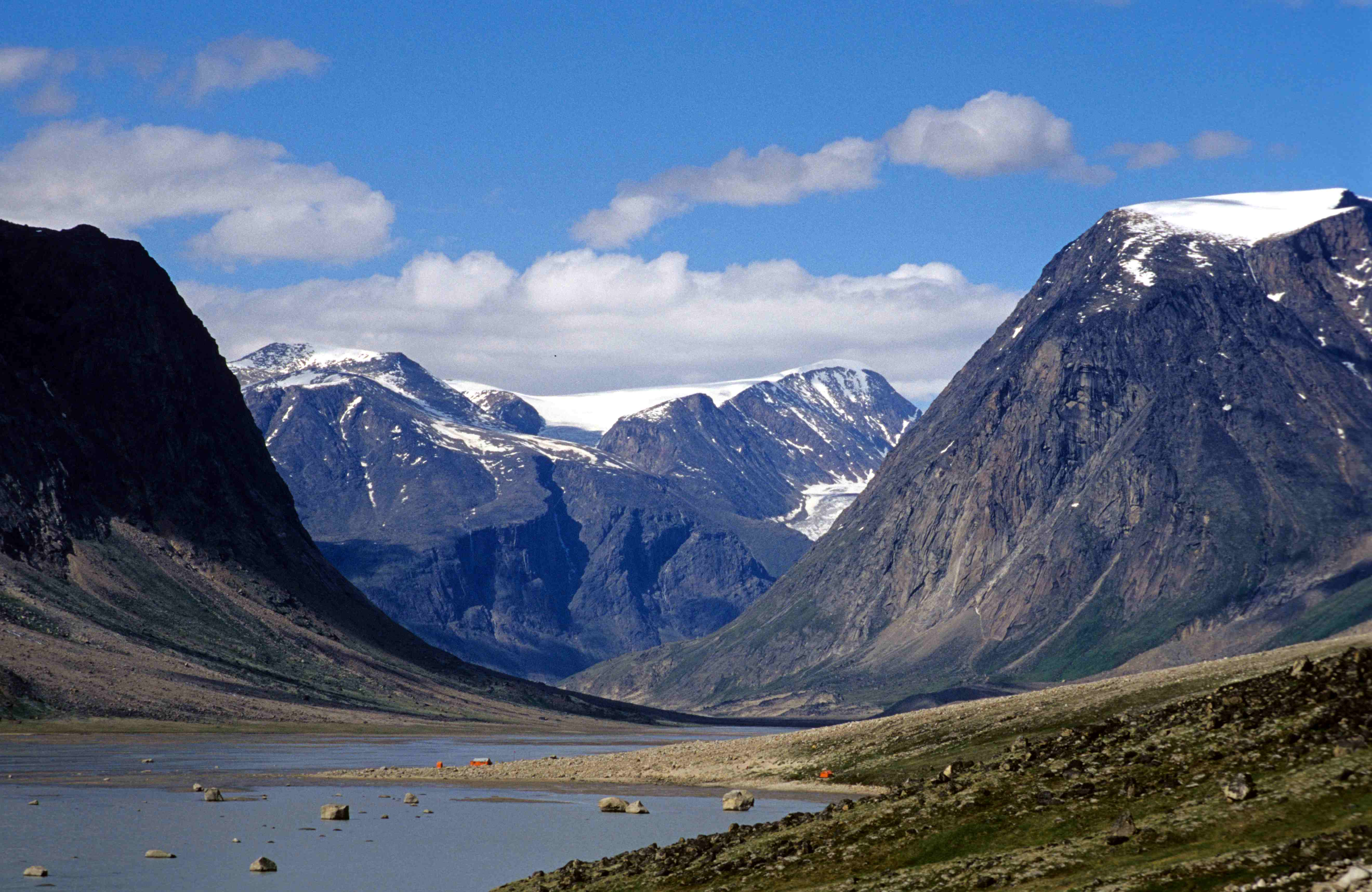 Southern entrance to Auyuittuq National Park; mouth of Weasel River and Mount Overlord (Pangnirtung Fiord)